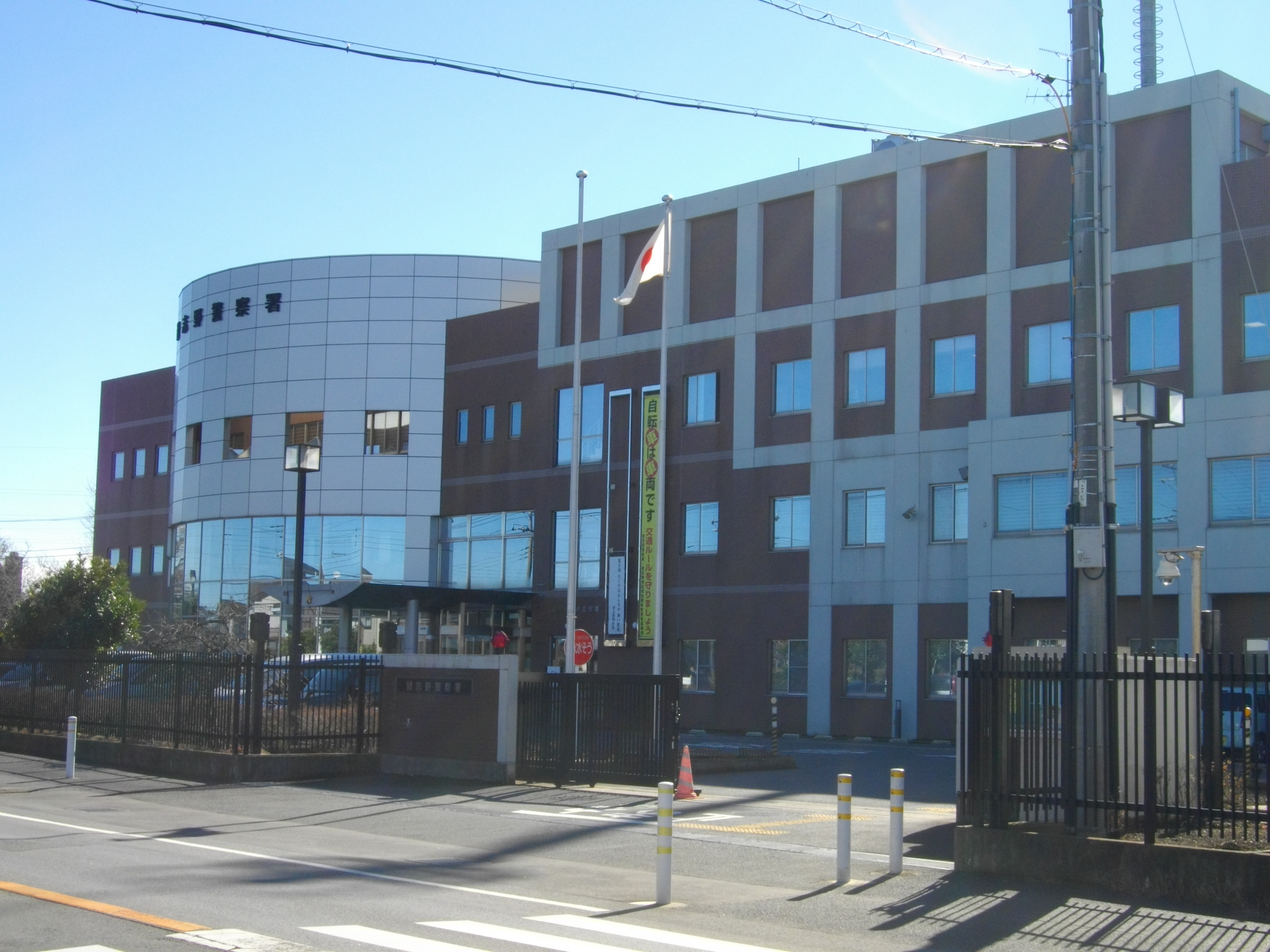 Narashino Police Station